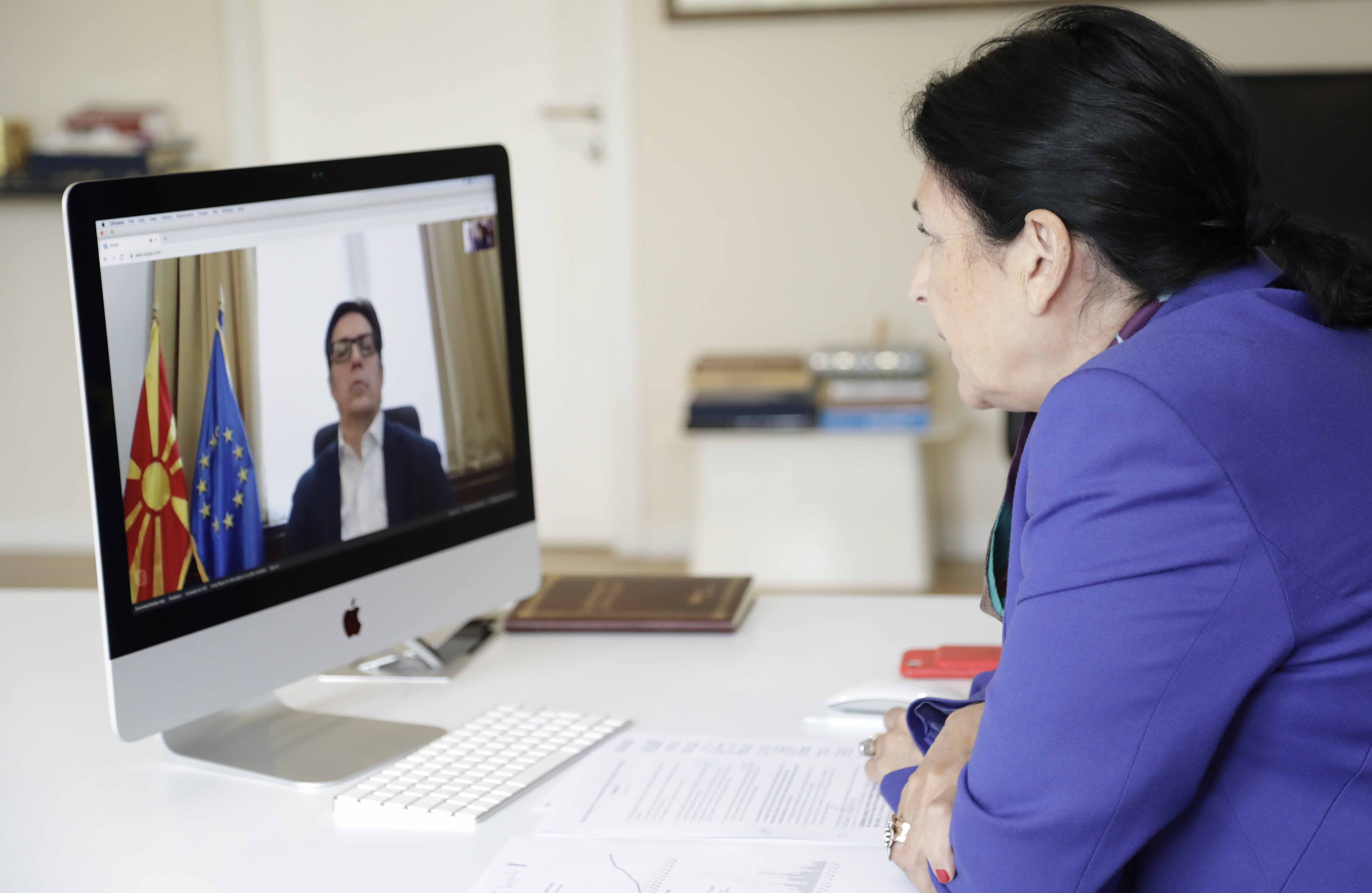 Georgian President Salome Zourabichvili discussing the COVID-19 pandemic during a video conference with North Macedonian President Stevo Pendarovski.